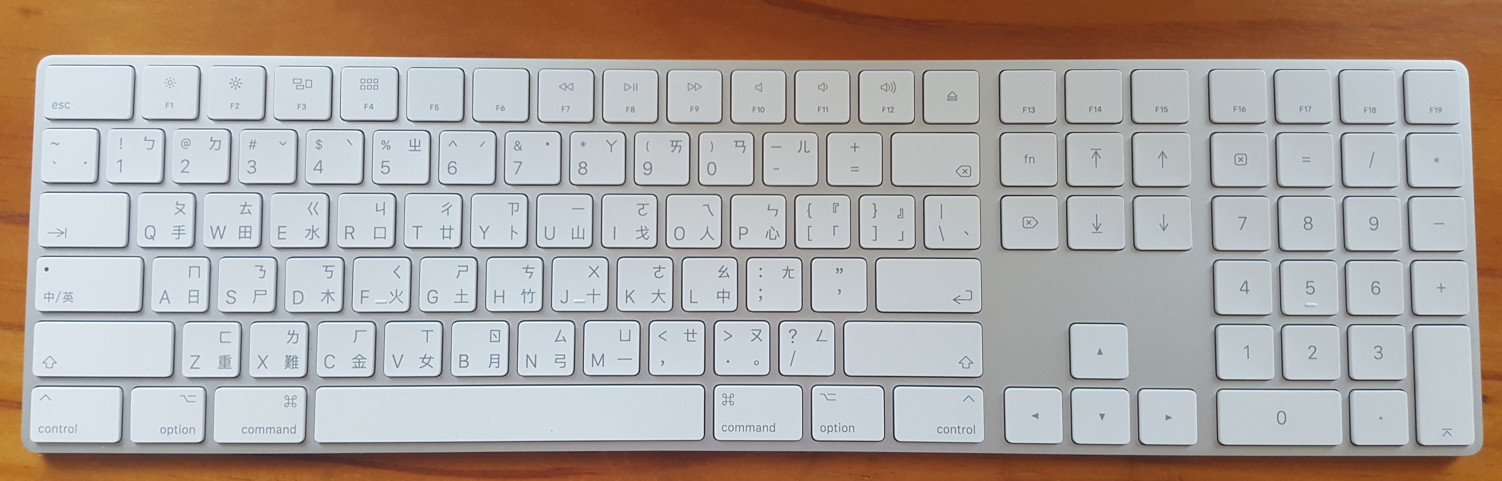 Apple Magic Keyboard with Numeric Keypad (A1843) Traditional Chinese (Zhuyin & Cangjie) version. 中文（台灣）: 正體中文（注音倉頡）版含數字鍵盤的Apple Magic Keyboard (A1843)